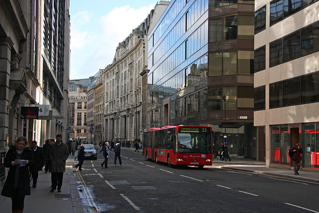 Leadenhall Street Seen from beside St. Mary Axe, looking towards Aldgate. City workers get out of their offices for lunch. A number 25 bus makes its way past Billiter Street on route to Holborn and Oxford Street. The vehicle is a Mercedes-Benz Citaro 'bendybus'. With the change of London Mayor, these vehicles are due to be phased out over the next few years.